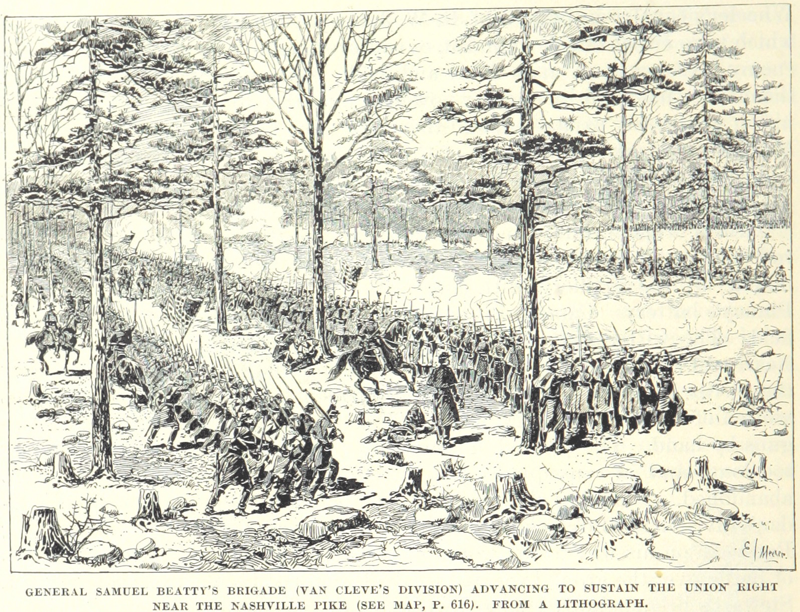 During the Battle of Stones River, Union troops under Samuel Beatty's brigade of Horatio P. Van Cleve's division march to meet the Confederates near the Nashville Pike.